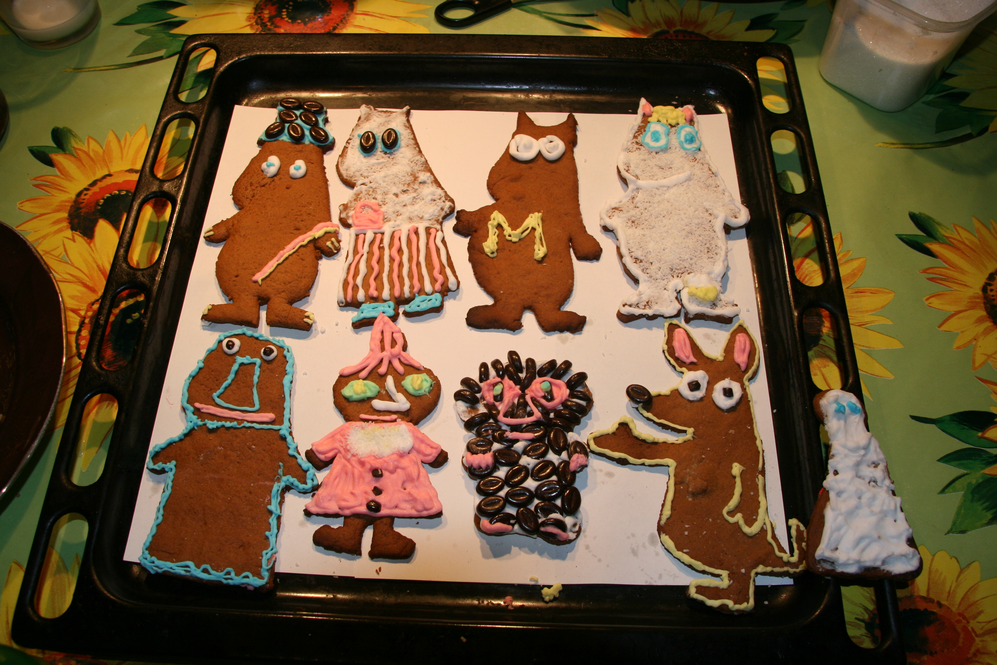 Moomin cookies